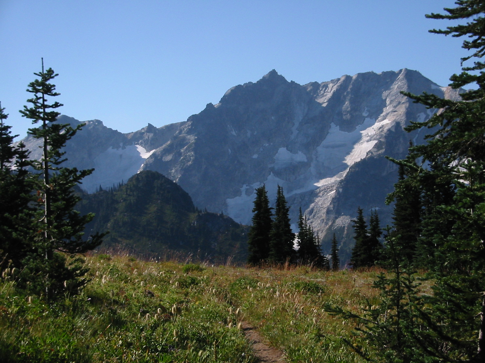 Cirque Peak 7960+ feet with two small glaciers, subalpine fir and bistort